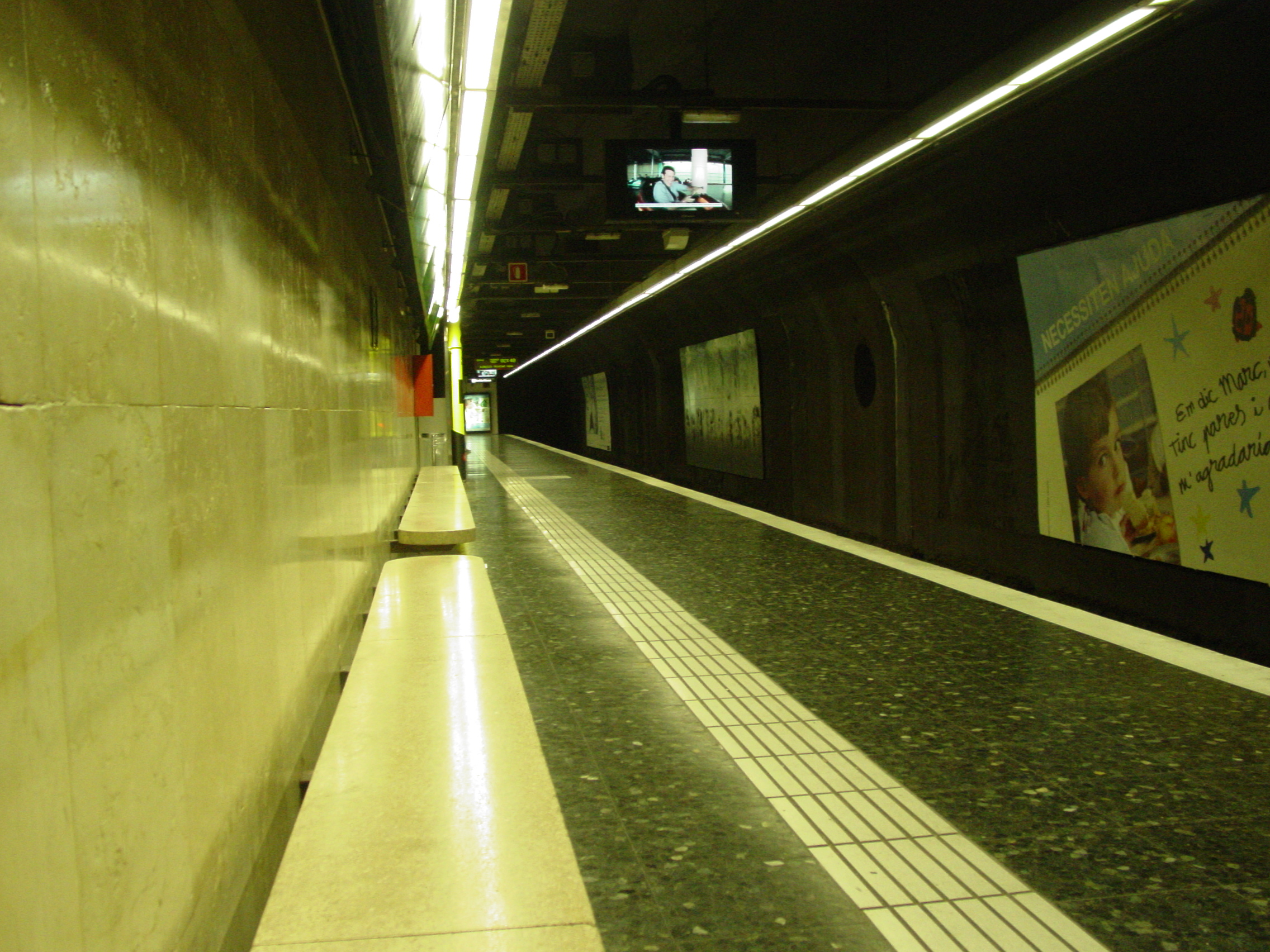 Platform view of Poble Sec station, Barcelona Metro line 3. 4.9.2013